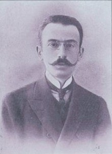 Composer Rauf Yekta